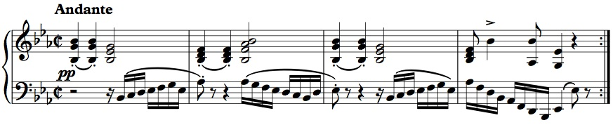 The opening four bars of Beethoven's Piano Sonata No. 13, op. 27, No. 1